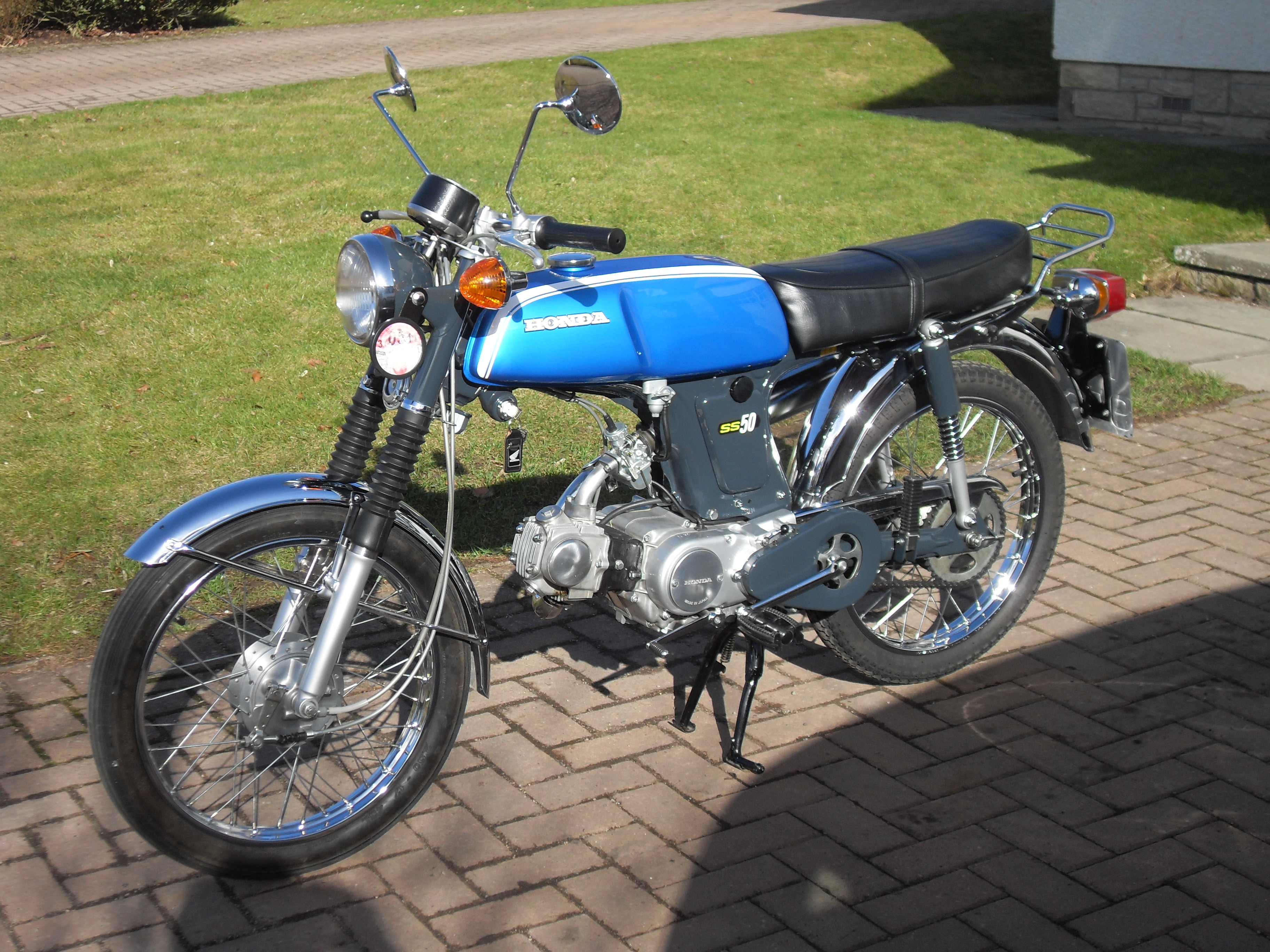 fully restored 1975 Honda SS50 4Speed